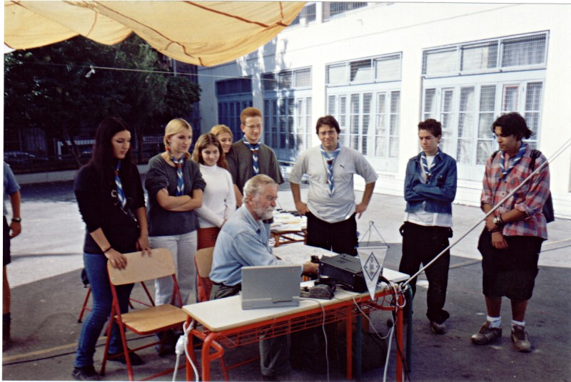 George Ossipov, SV1KU (SK) operating as SV1KU/J during 2001 Jamboree on the Air (JOTA).